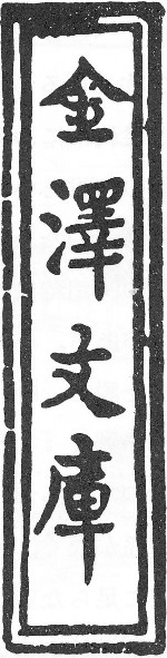 Seal of Kanazawa bunko